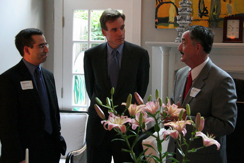 Mark Warner, Ciro Rodriguez and ActBlue co-founder Benjamin Rahn at a June 15 fundraiser for ActBlue. Photo by Jonathan Zucker.